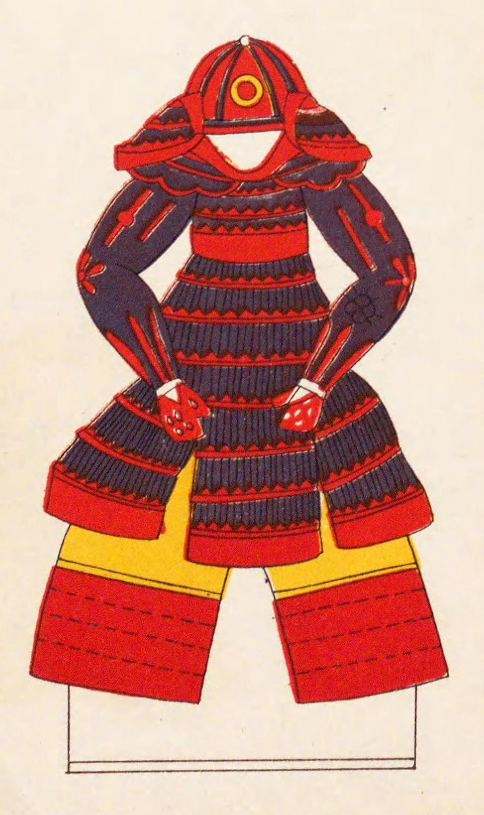 The picture of an rental armour which Hatamoto in Kojunin groups at Tokugawa Shogunate used.